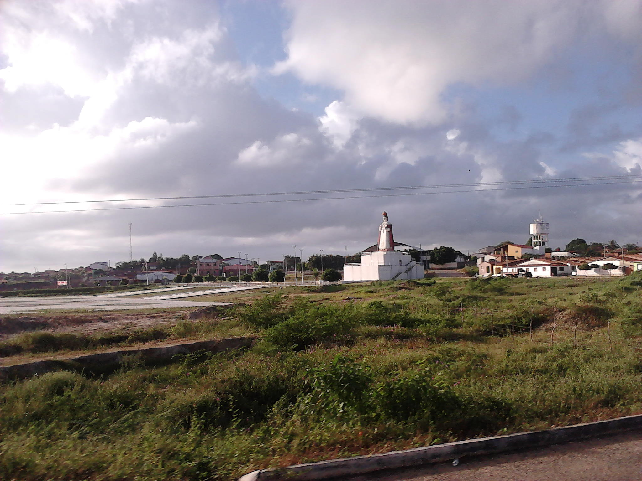 File of Menino Jesus de Praga.